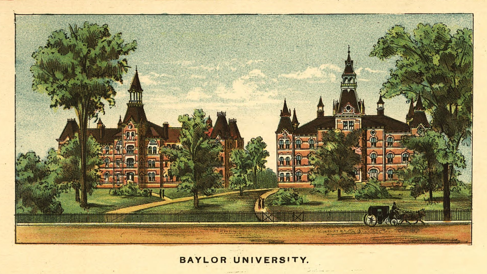 1892 Aerial view from East-northeast of Baylor University (its two buildings are Burleson Hall, left, and Old Main, right) and adjacent Carroll Field. Cropped view of Waco, Texas 1892, a chromolithograph created by A. L. Westyard and originally owned by Shober & Carqueville Lithographing Company, in Chicago, Illinois, U.S.A. First published in 1892 by D. W. Ensign & Company. The image is from a digital reproduction of the lithograph in the Library of Congress Geography and Map Division, located in Washington, D.C., U.S.A.